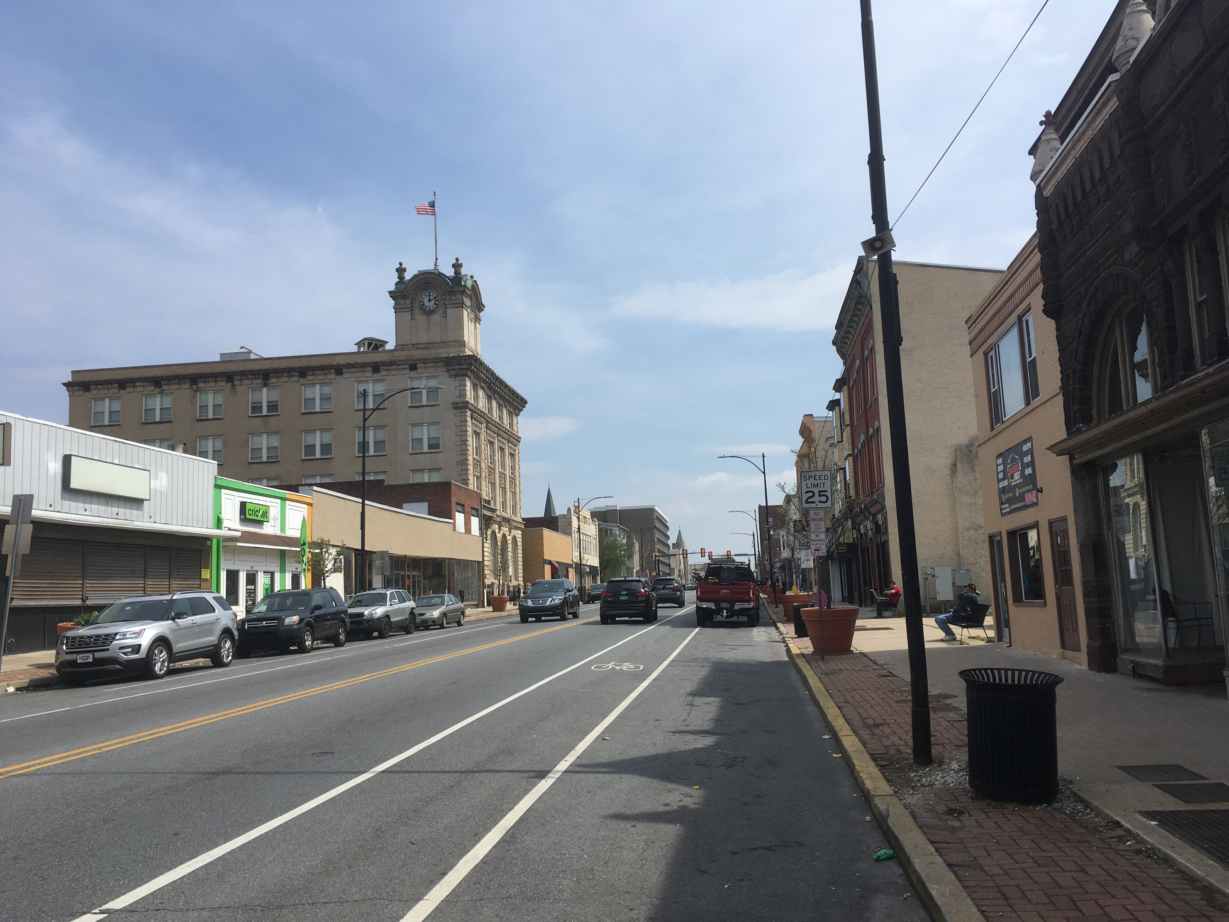 Eastbound U.S. Route 30 Business (Lincoln Highway) past the intersection with 2nd Avenue in Coatesville, Pennsylvania